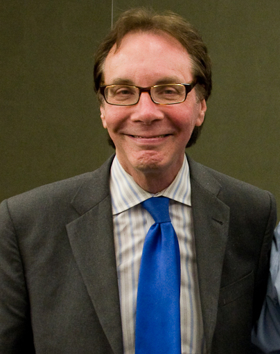 Alan Colmes at a Hudson Union Society event in July 2009.